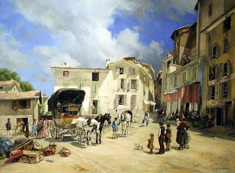 The Relay